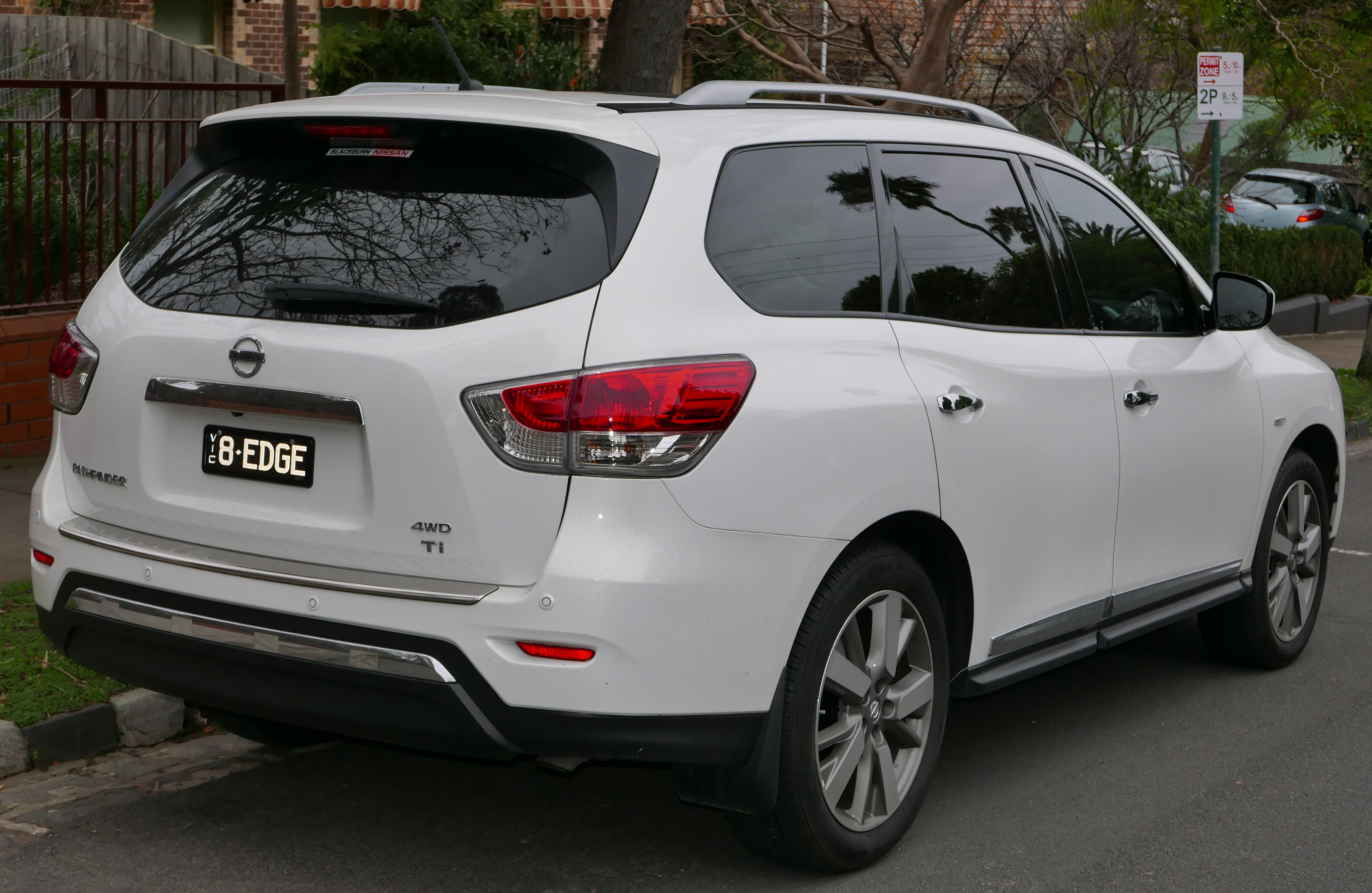 2014 Nissan Pathfinder (R52 MY14) Ti 4WD wagon. Photographed in Kew, Victoria, Australia. Vehicle registration enquiry resultsJurisdictionVictoriaRegistration8EDGEChassis code5N1AR2MM9EC642995Engine codeVQ35503361YCompliance date2014-06Year of manufacture2014